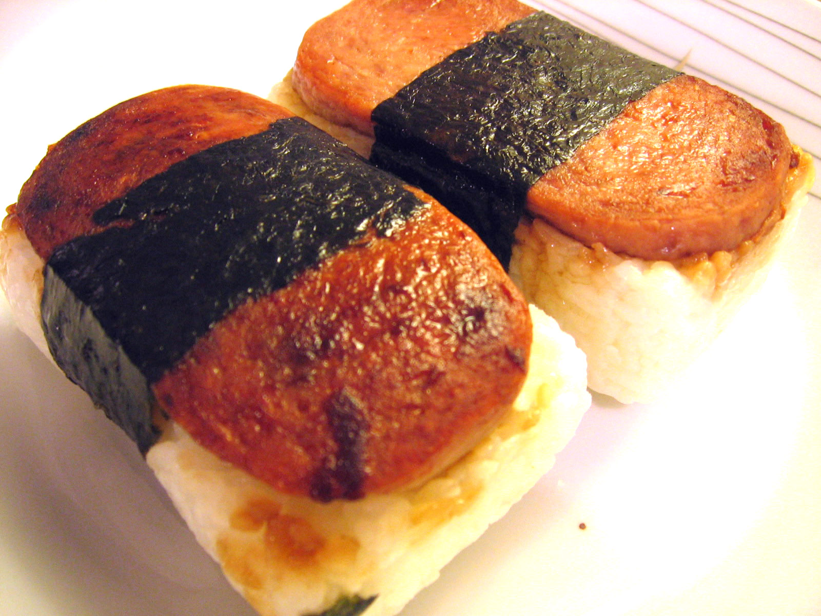 Photo of a dish of SPAM musubi